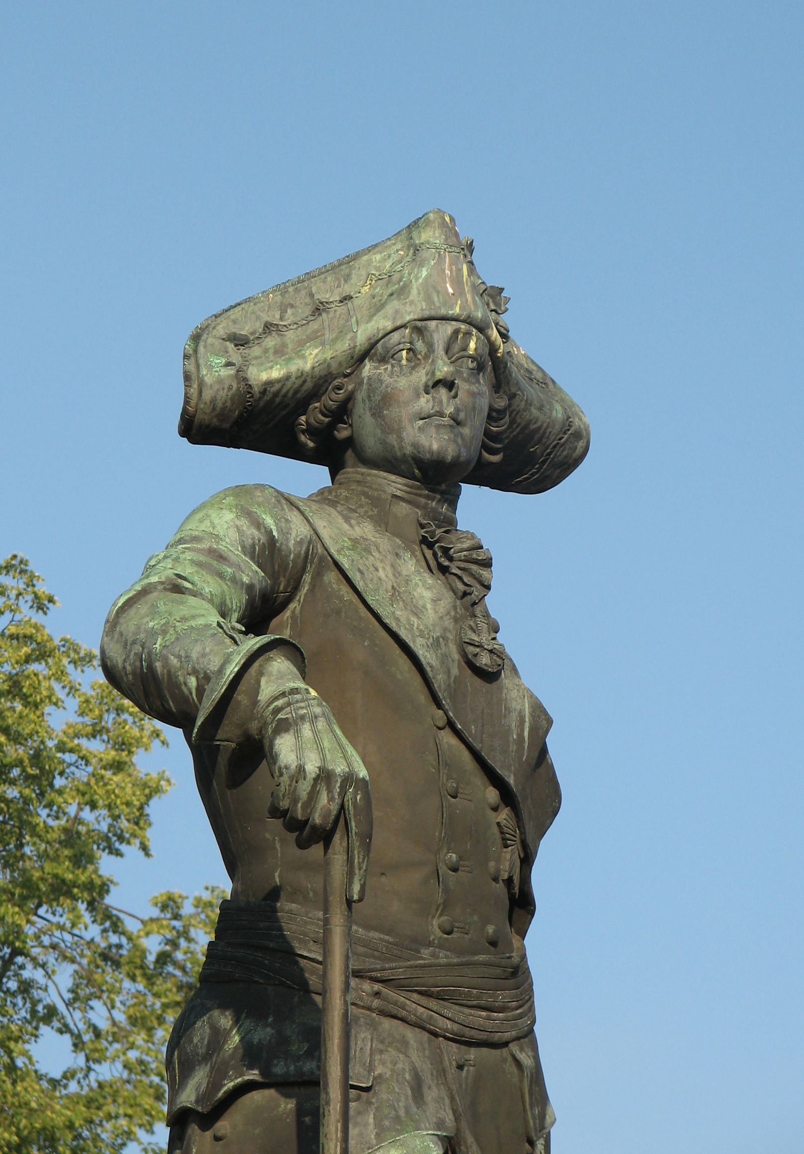 Top part of monument to Paul I in Gatchina, Russia